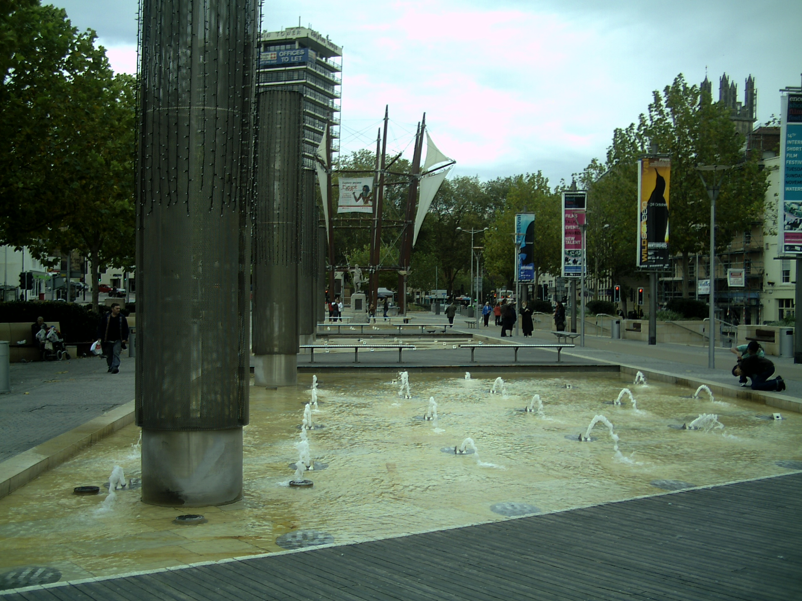 Bristol - central circus